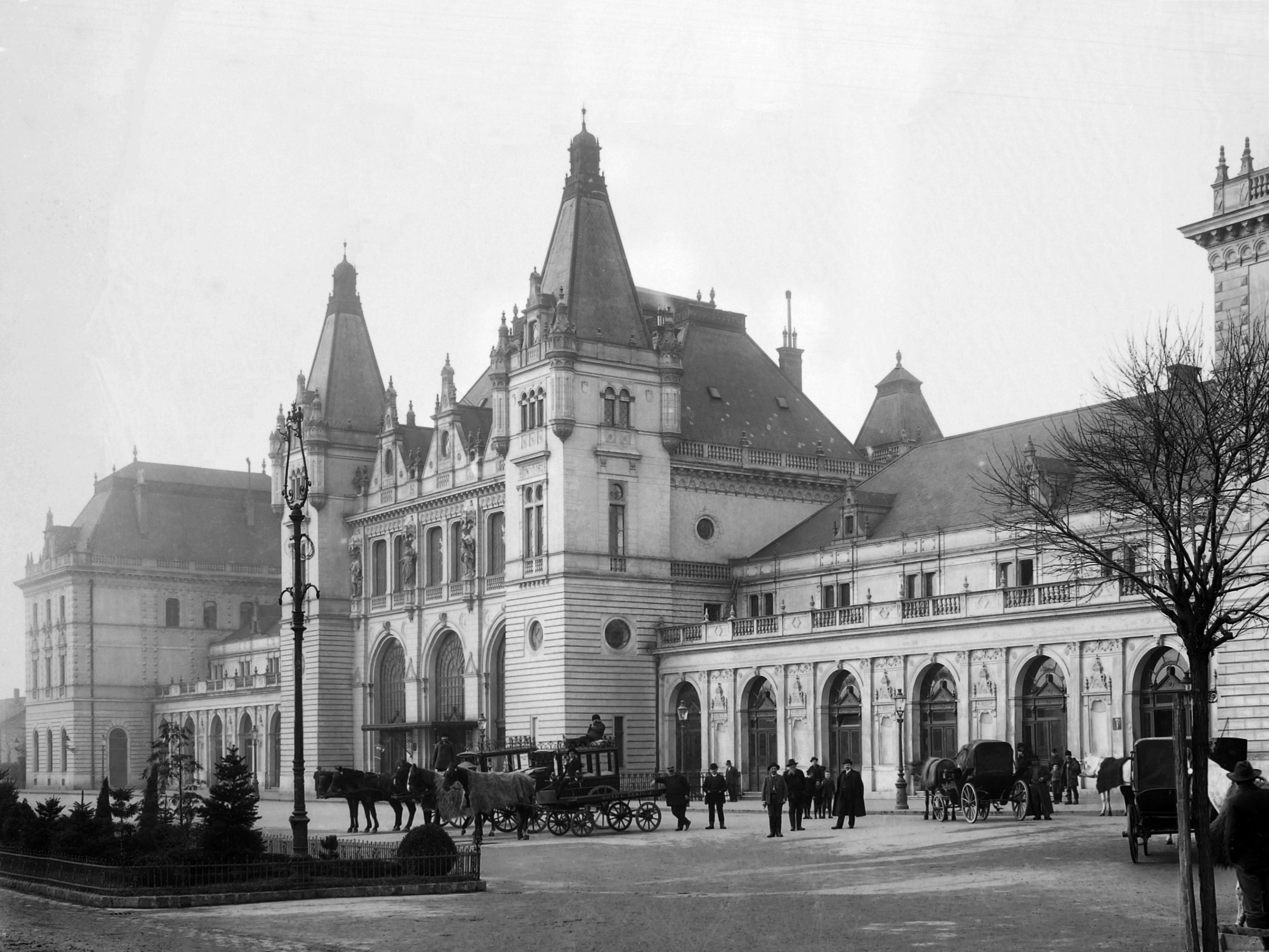 Iosefin Train Station in 1904, Timișoara, Austria-Hungary (now Romania). The train station was destroyed by Americans in a bombardment on 3 June 1944.